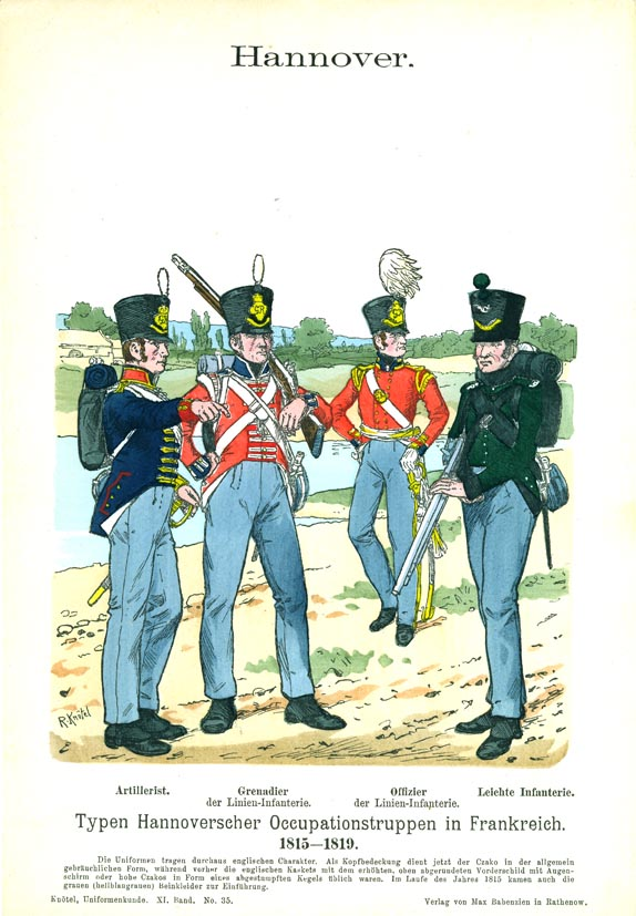 Hannover 1816-1819